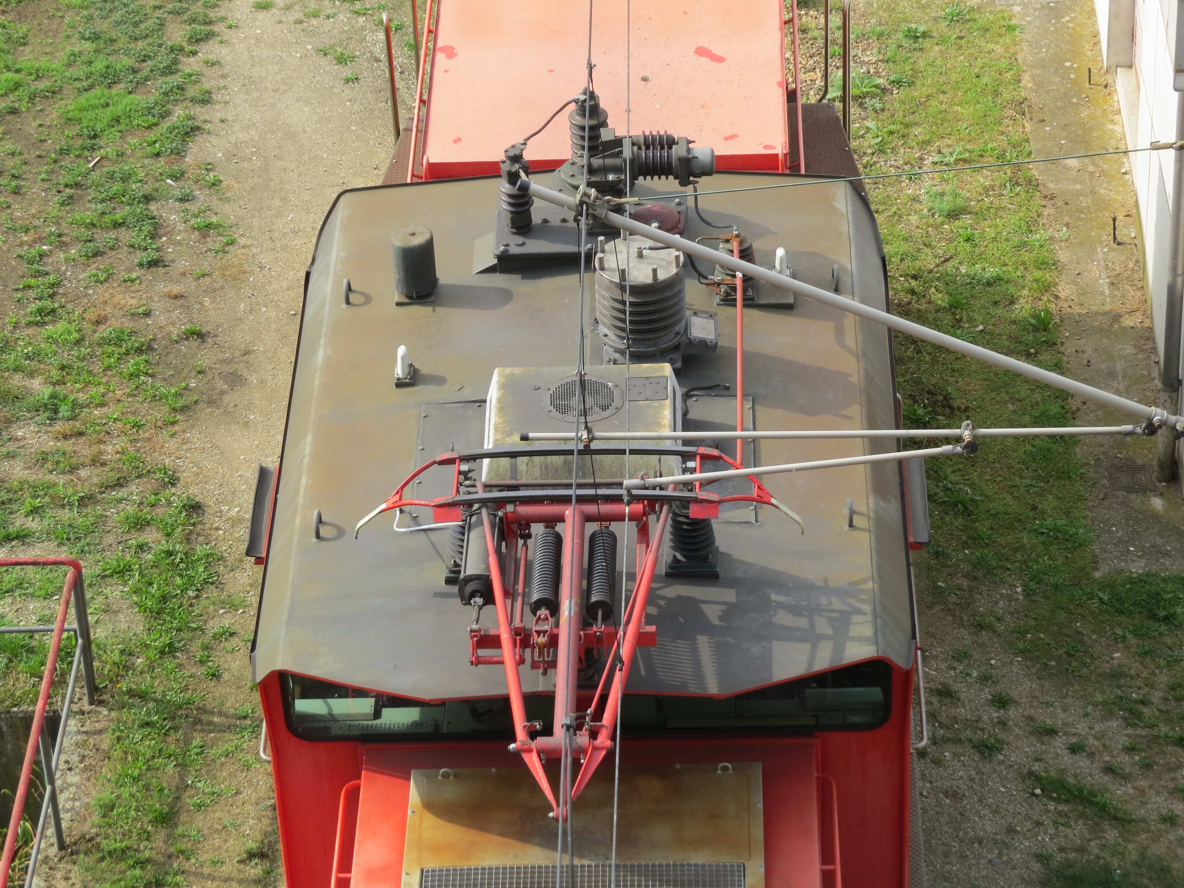 ÖBB 1063 025-1 at Bahnhof Krems an der Donau